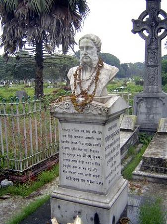 Tomb of Michael Madhusudan Dutt at Lower Circular Road, Kolkata, West Bengal, India.